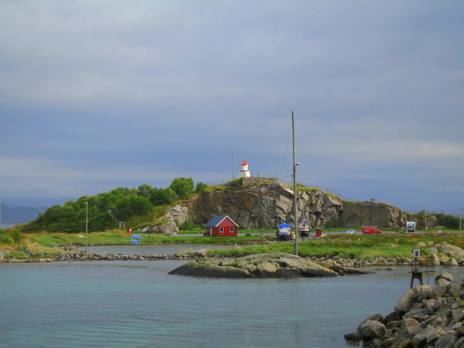 A picture of Lødingen. Over there is a camping place.